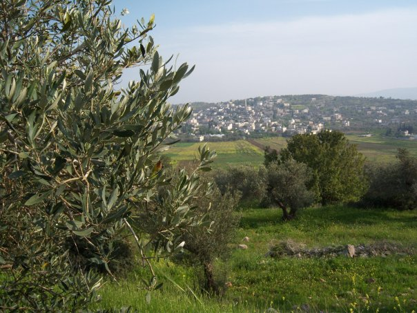 Nature Scene From The Village